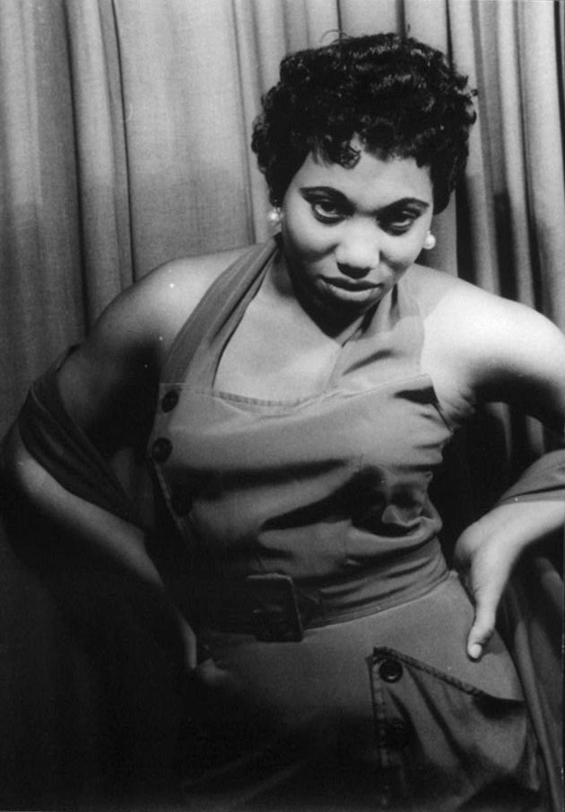 Leontyne Price, American opera singer, as Bess in George Gershwin's opera Porgy and Bess Portrait of Leontyne Price, Porgy & Bess